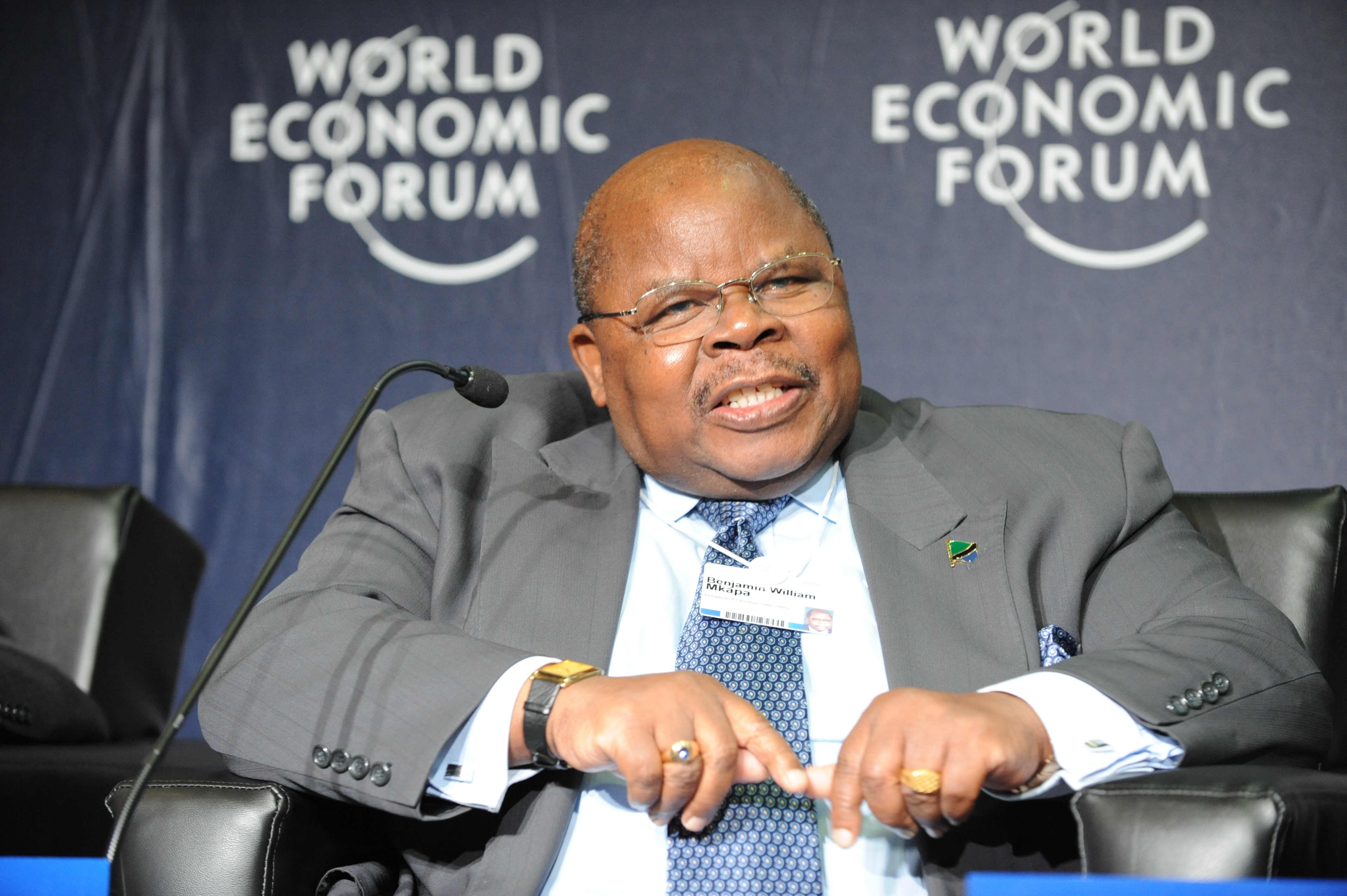 Benjamin William Mkapa, third President of Tanzania, during World Economic Forum on Africa 2010.